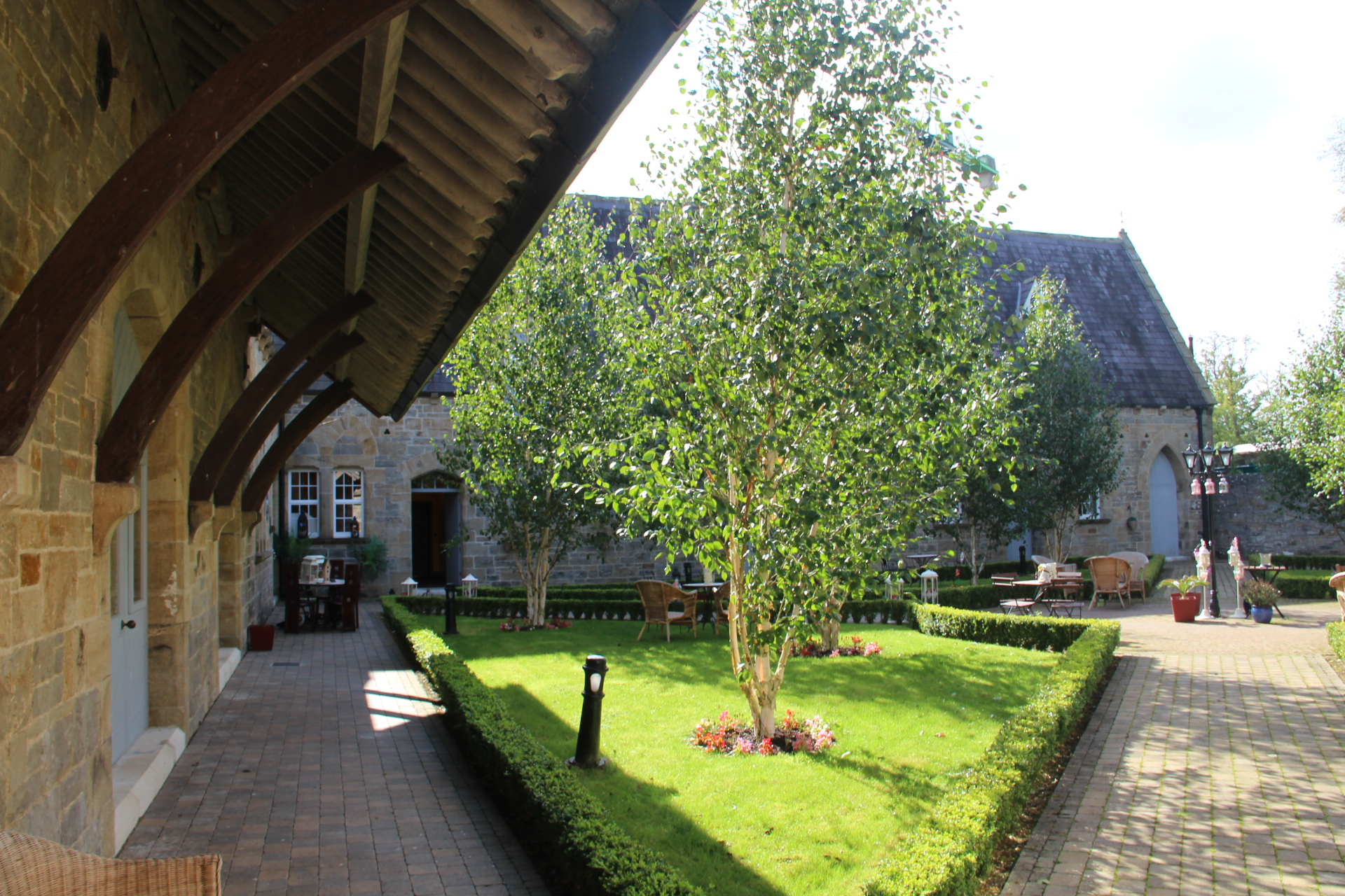 Internal Courtyard